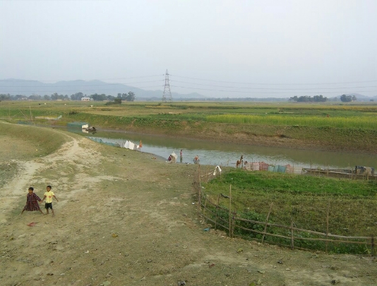 This picture capture by Bapon malo on 16th January beside River of Chalantapara